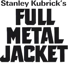 The Logo of Full Metal Jacket, a Stanley Kubrick's film.